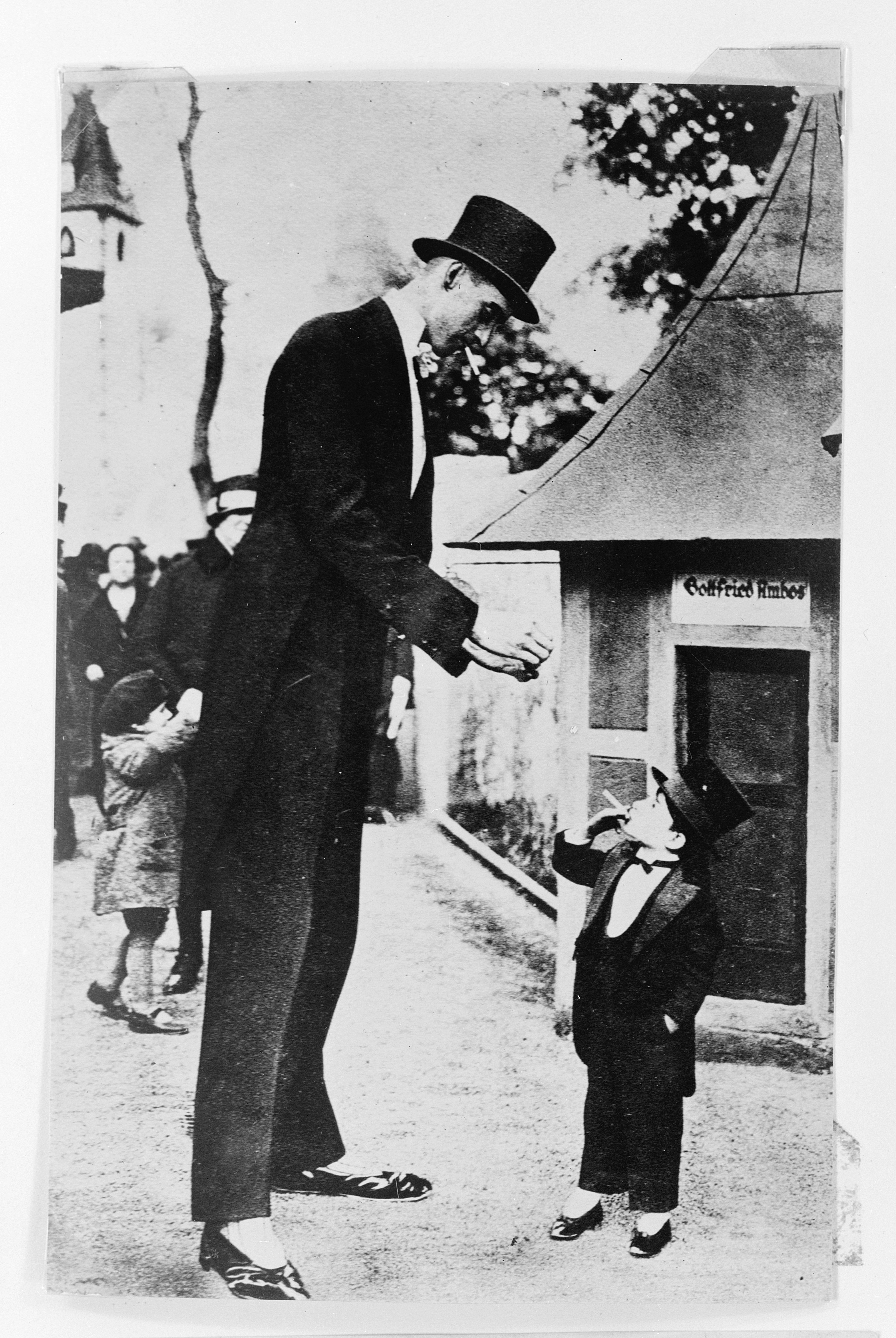 A giant (case of pituitary gigantism) and a dwarf (case of ateleiosis, not achondroplasia), anon., London, 1927 Wellcome Images Keywords: congenital diseases: london, 1